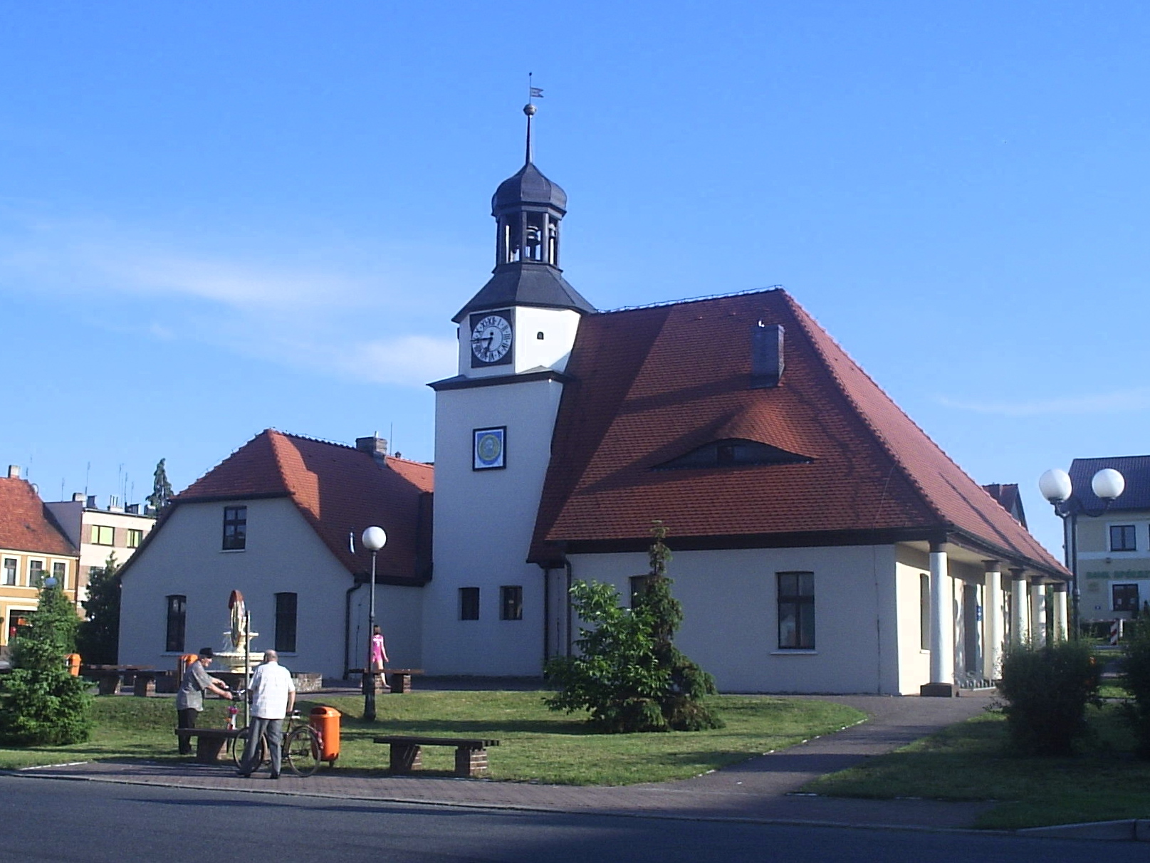 Town hall in Zduny, Poland